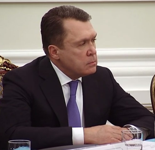 Volodymyr Semynozhenko, Ukrainian scientist and politician, former Vice Prime Minister of Ukraine and member of the Ukrainian Verkhovna Rada